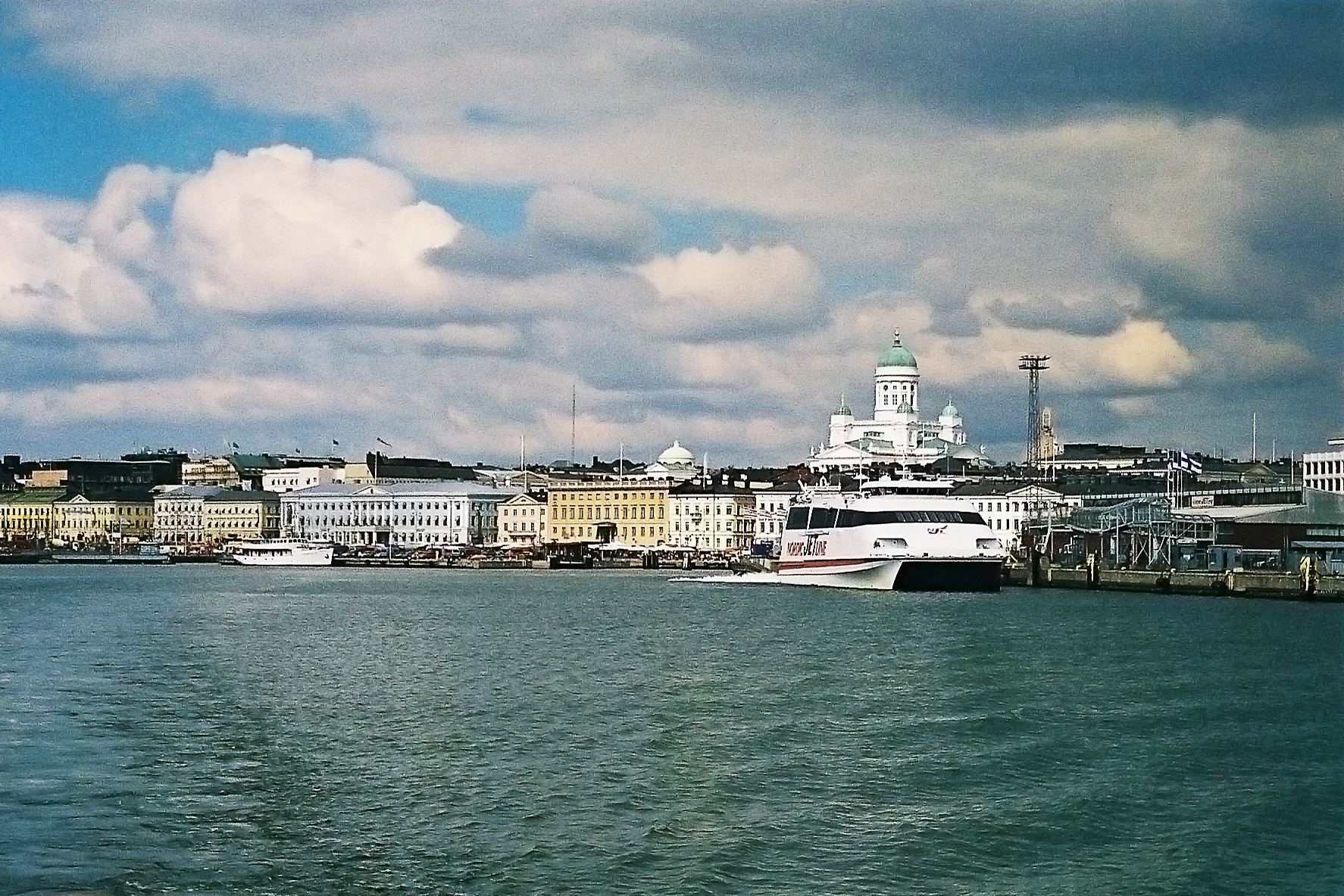 Port of Helsinki